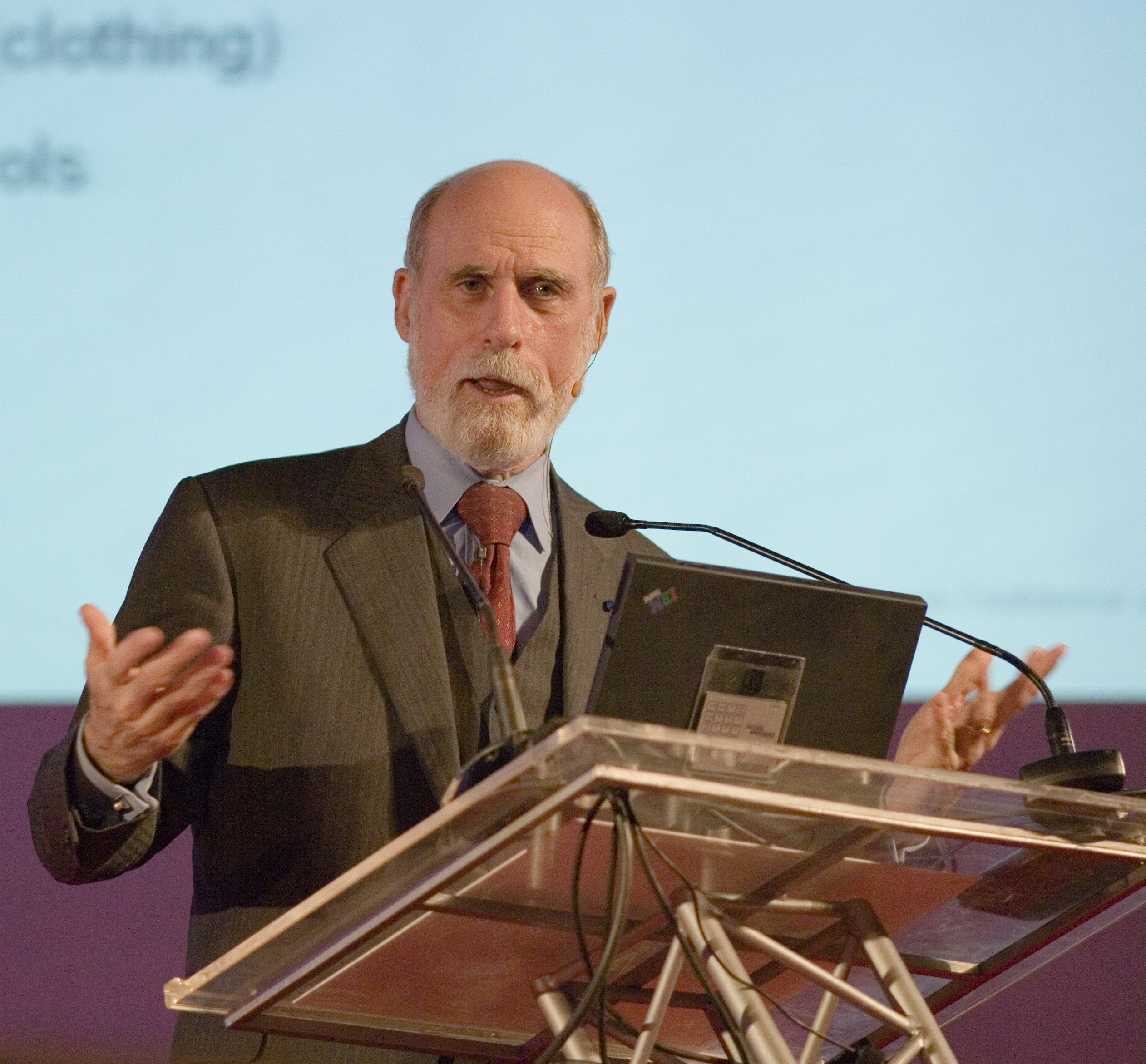 Vint Cerf, North American computer scientist who is commonly referred to as one of the "founding fathers of the Internet" for his key technical and managerial role, together with Bob Kahn, in the creation of the Internet and the TCP/IP protocols which it uses. Taken at a conference in Bangalore.